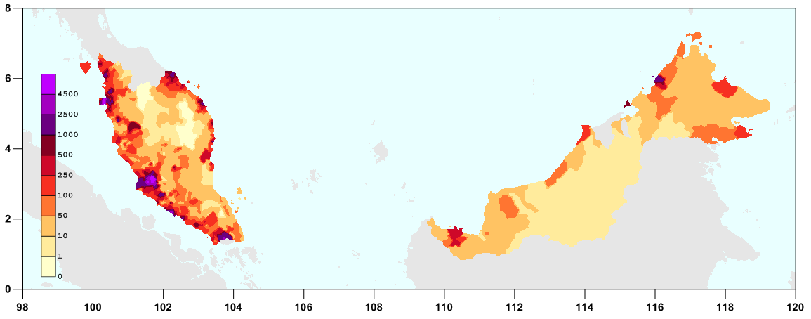 Malaysia 2010 estimated population density. Data shown as persons per km2.